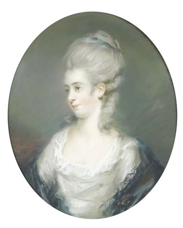 Pastel portrait of Theophila Palmer (died 1848), wife of Robert Lovell Gwatkin.